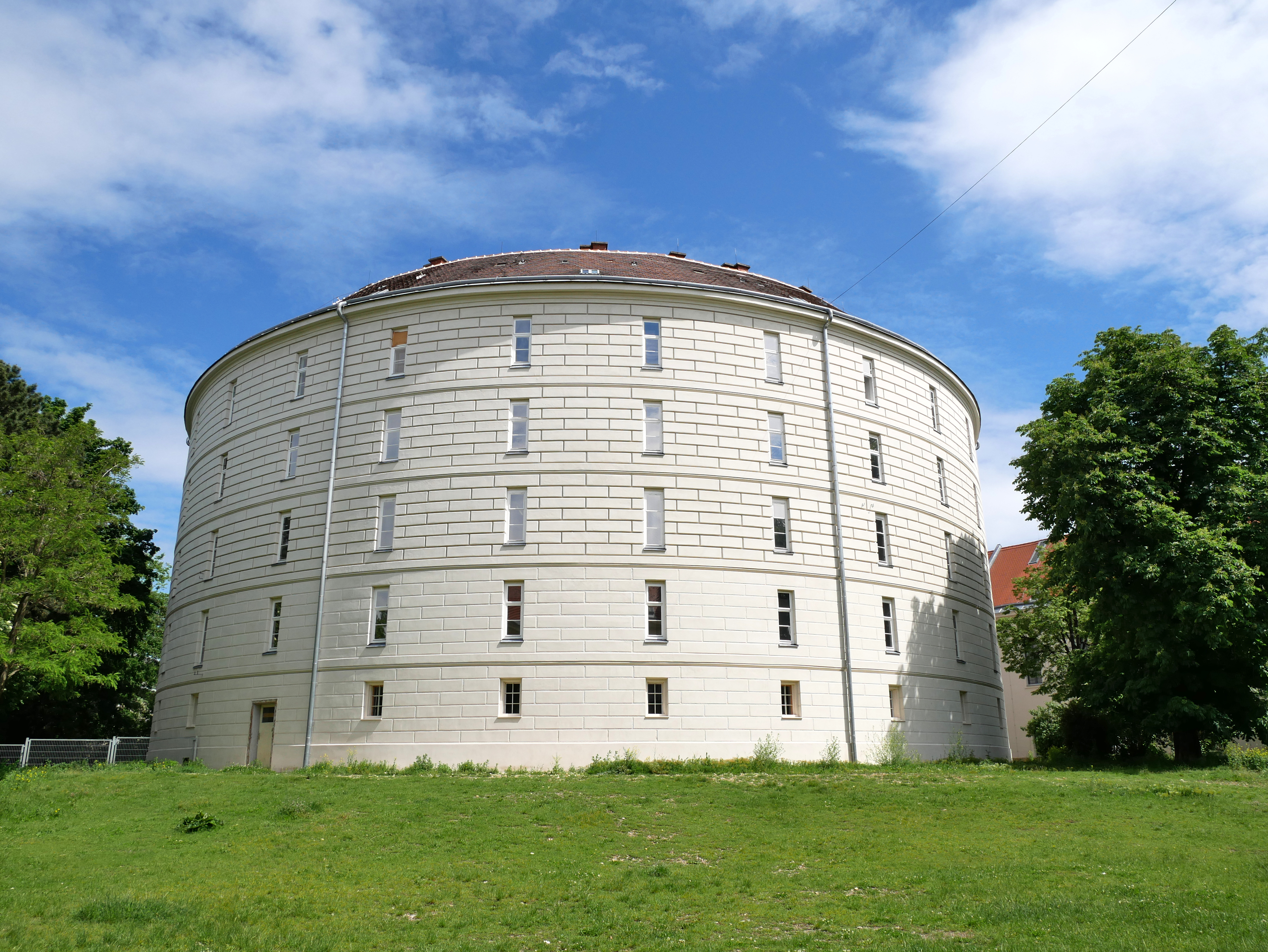 The Narrenturm in the old Allgemeines Krankenhaus in restored condition